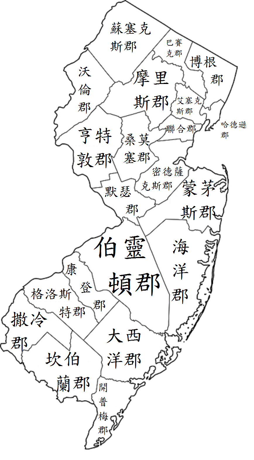 retouched picture of File:New_Jersey_Counties_Labeled.svg